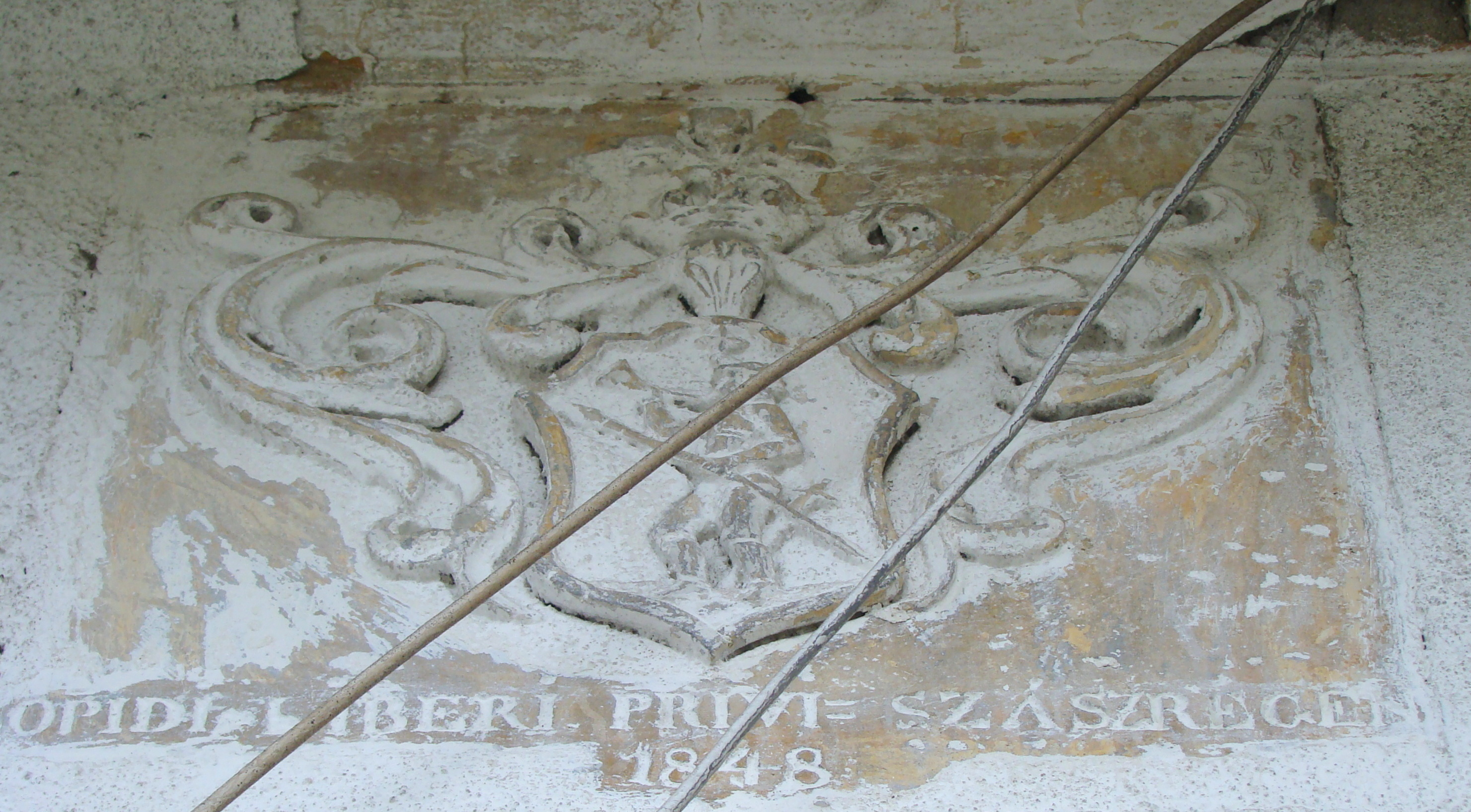 House, historic monument, in Reghin, Mihai Viteazu street, nr.95